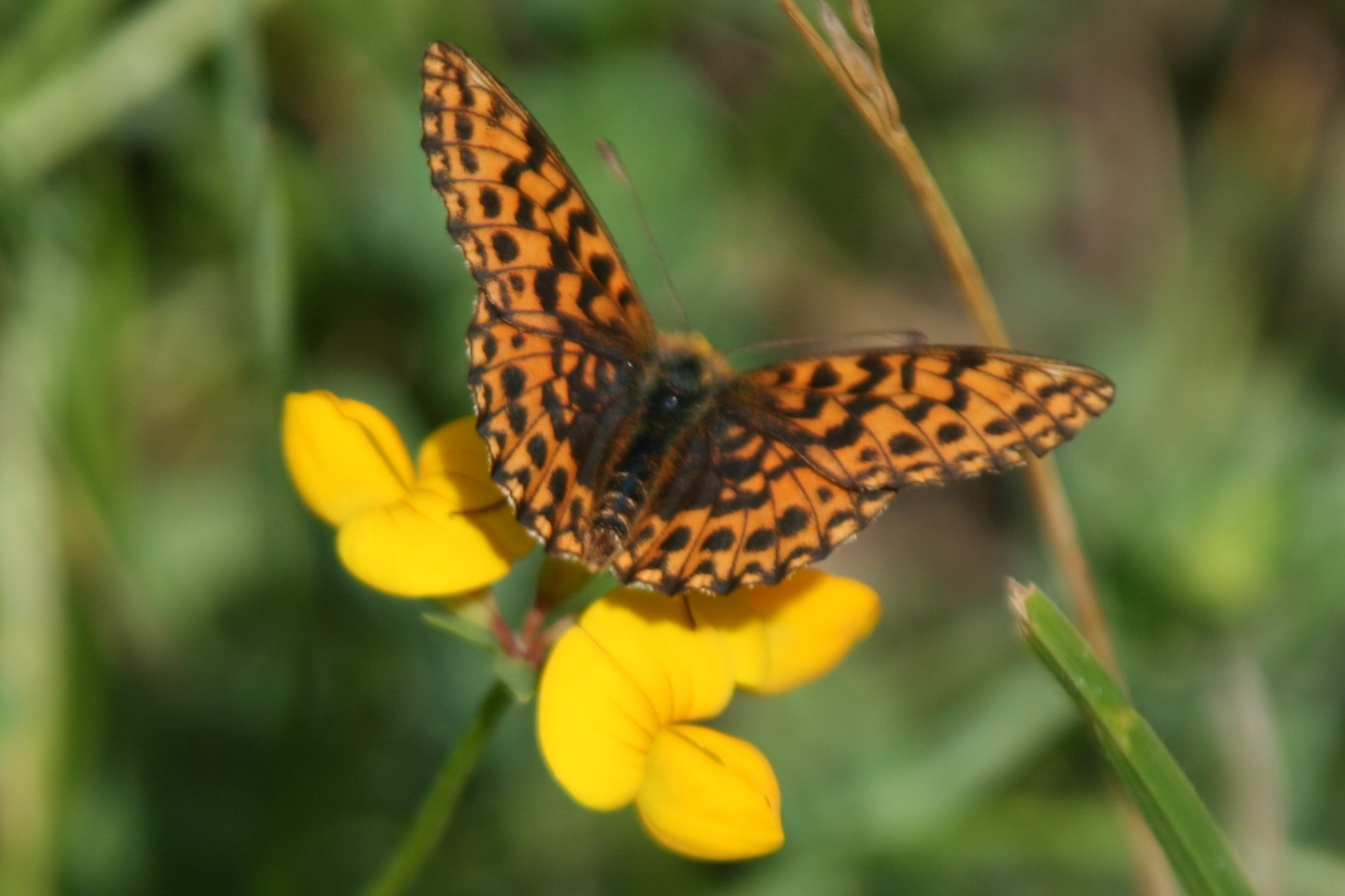 A Boloria dia butterfly, photographed in Dörzbach-Hohebach, determined at the Lepiforum